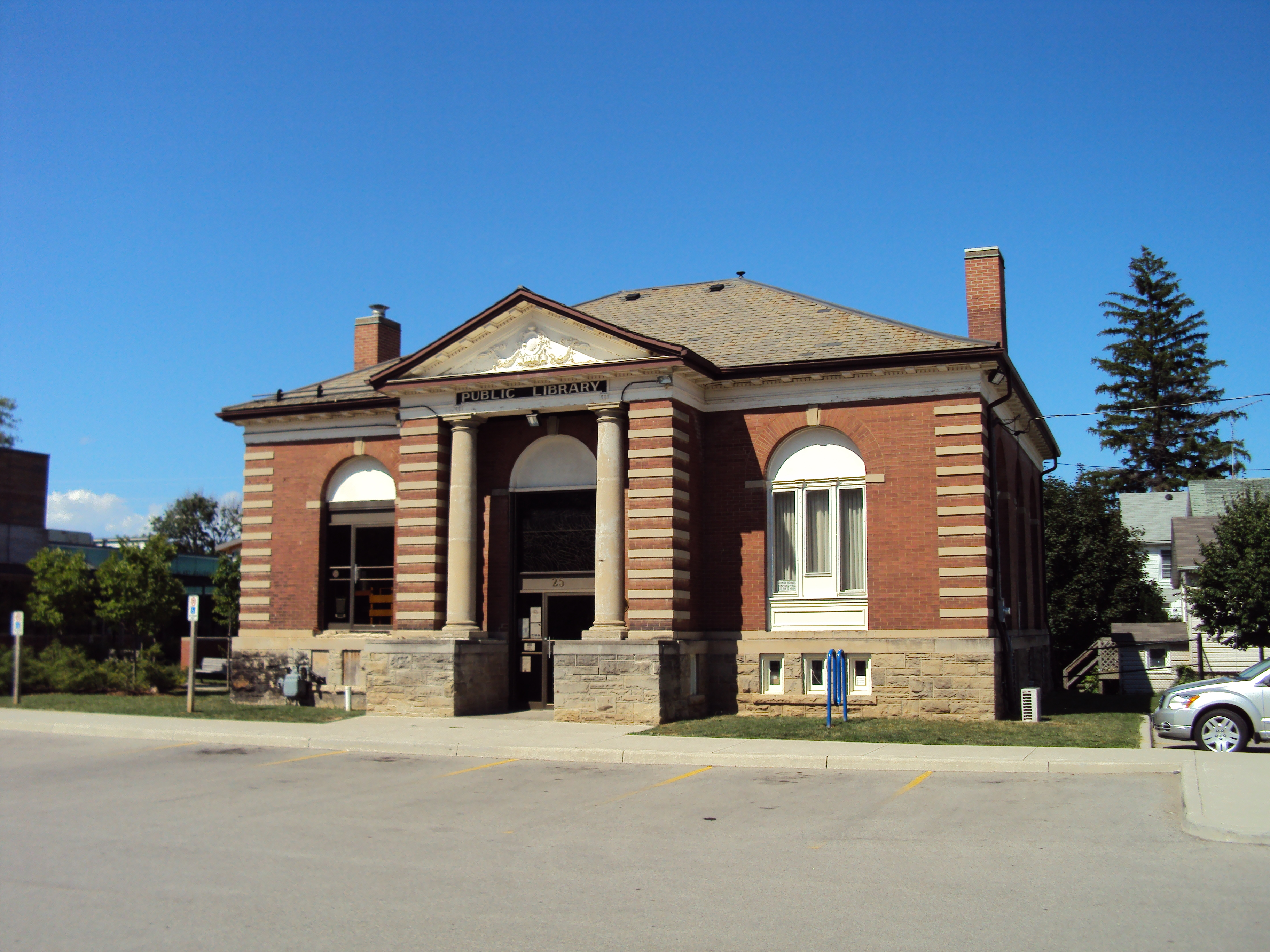 Public library in Grimsby, Ontario.